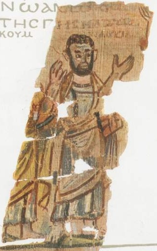 Alexandrian World Chronicle - 3v - Naum